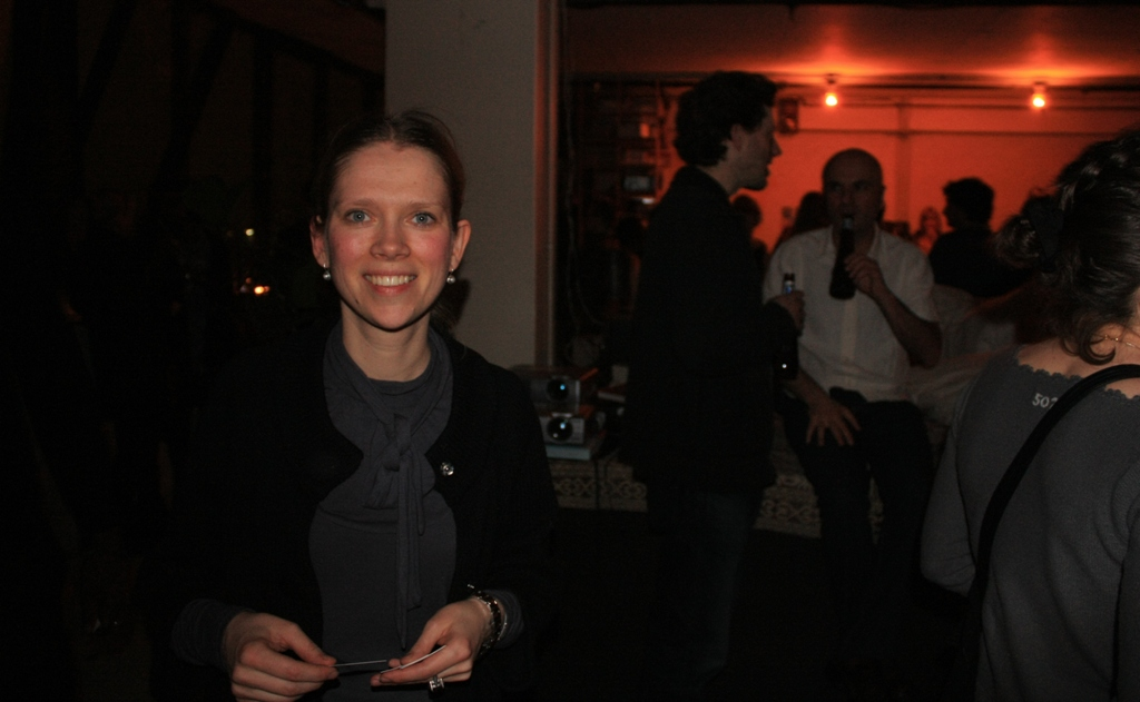 Estonian fashion designer Reet Aus in London.